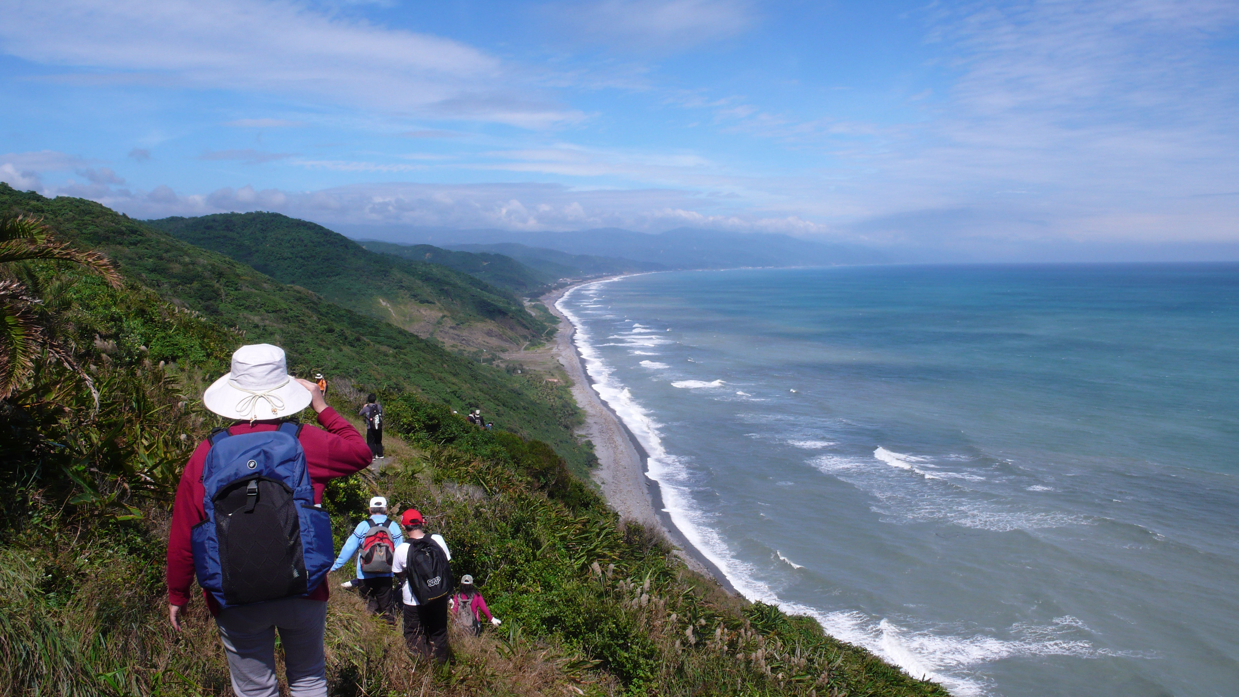 Alangyi Trail中文（中国大陆）: 阿朗壹古道